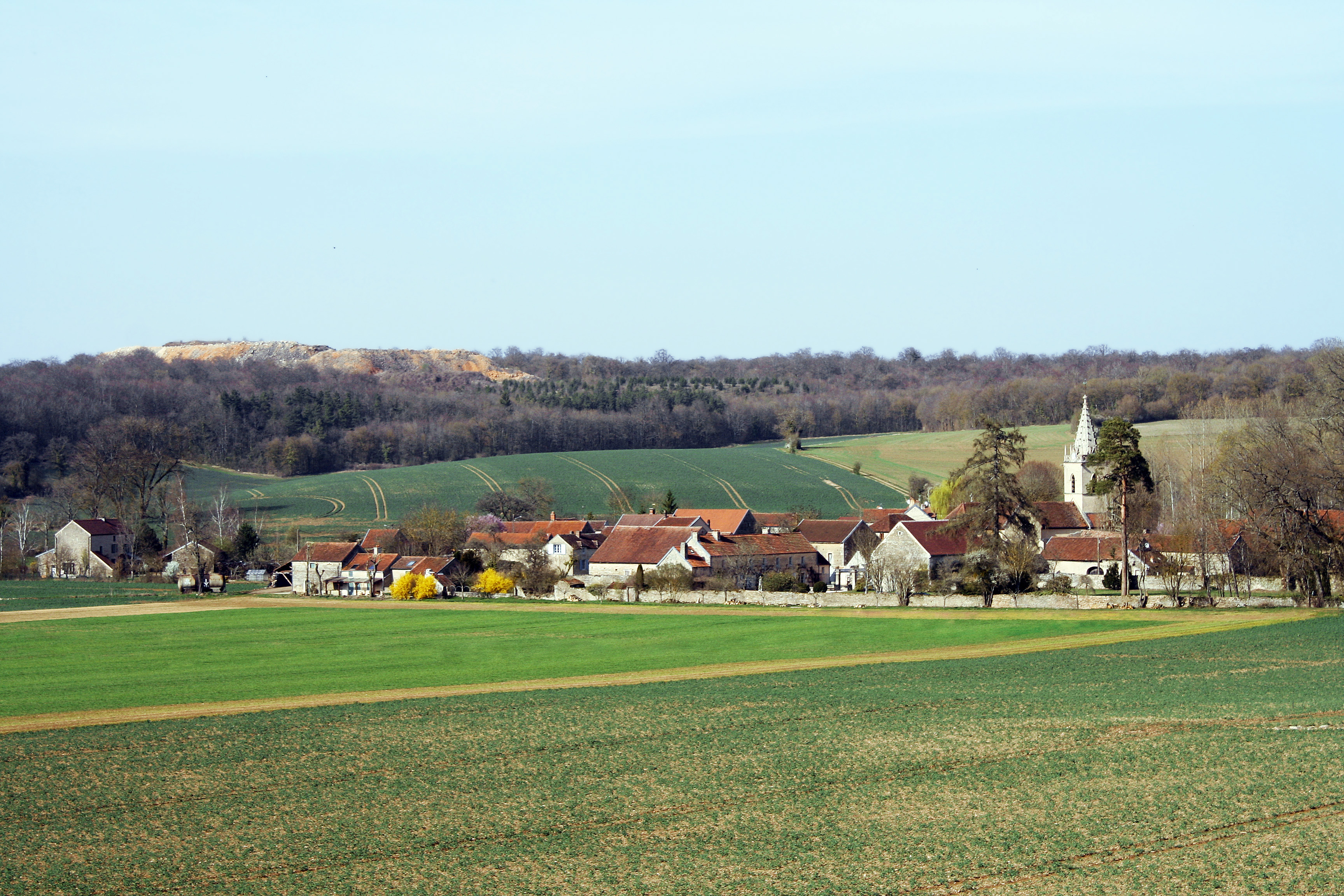 The district Rue-Basse of the village Magny-Lambert seen since the road to Villaines-en-Duesmois